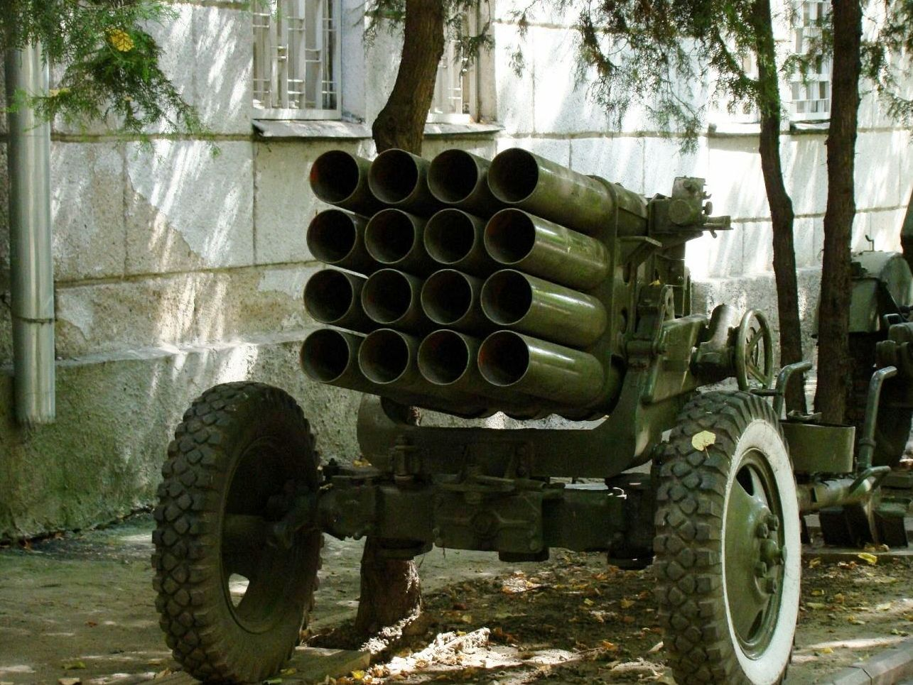 A BM-12 16-tube multiple launch rocket, displayed in a Russian military museum.